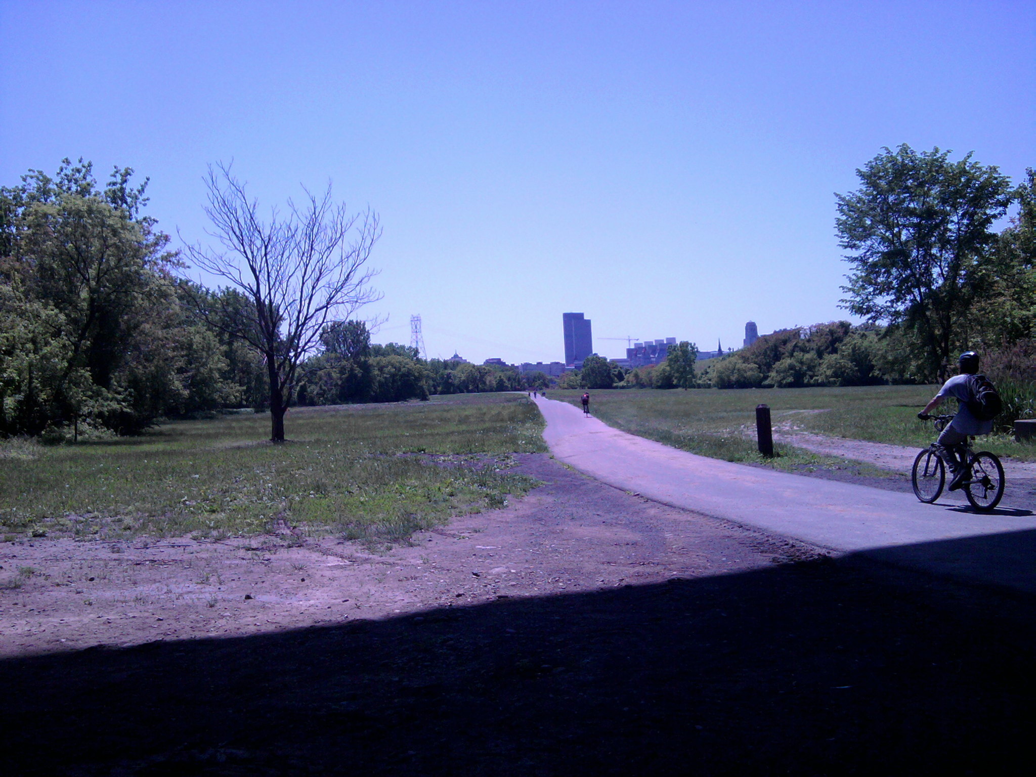 A view of the Corning Tower from the Mohawk Hudson bikeway.